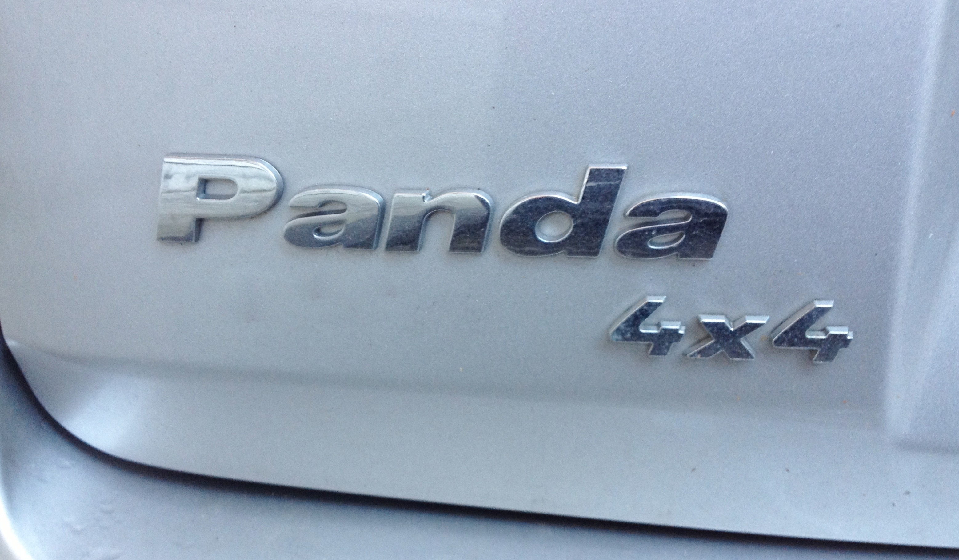 Fiat Panda 4x4 logo